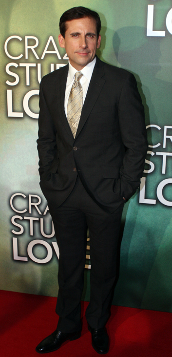 Steve Carell at the premiere for Crazy, Stupid, Love..